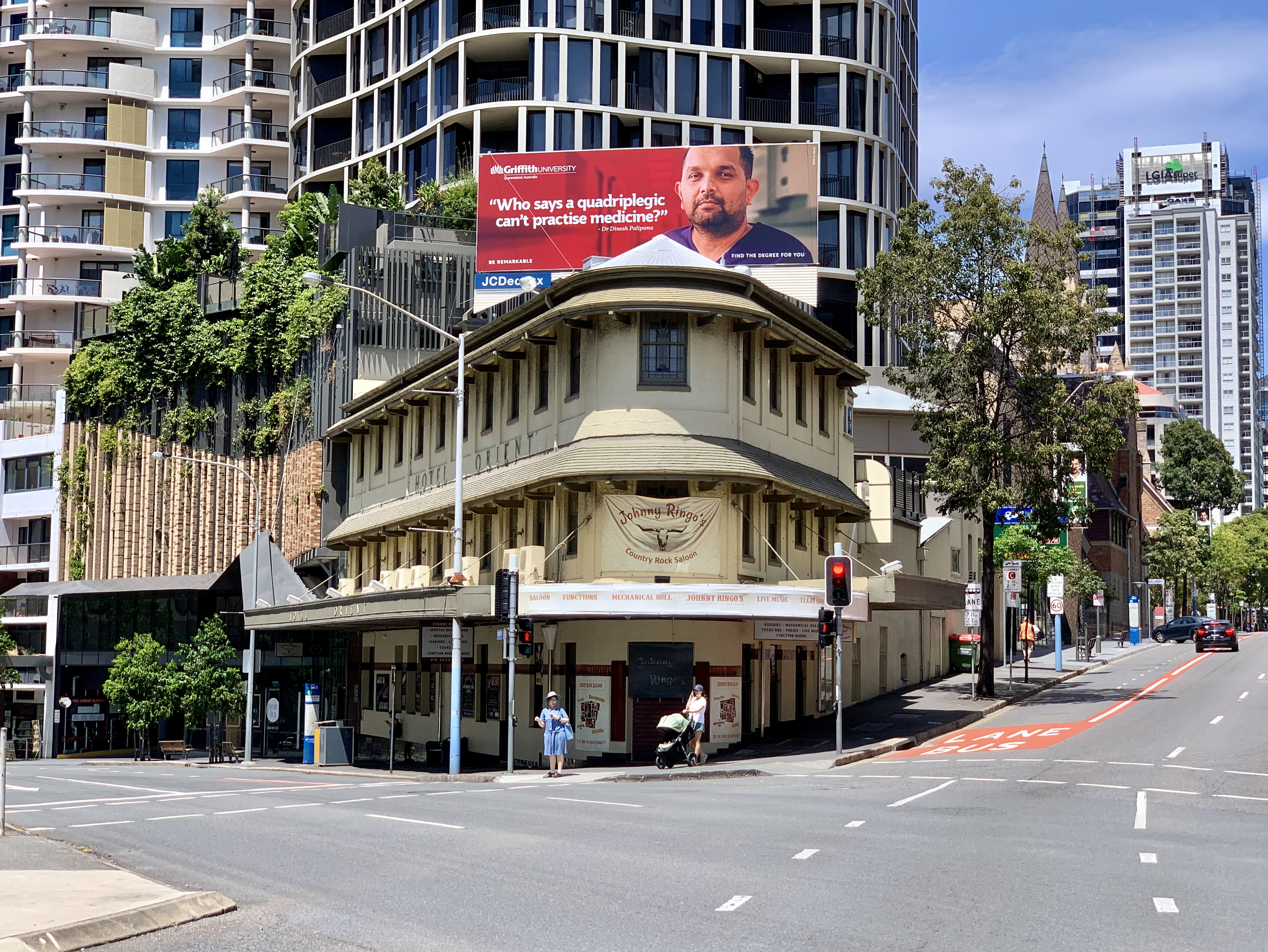 Orient Hotel, Brisbane in November 2019